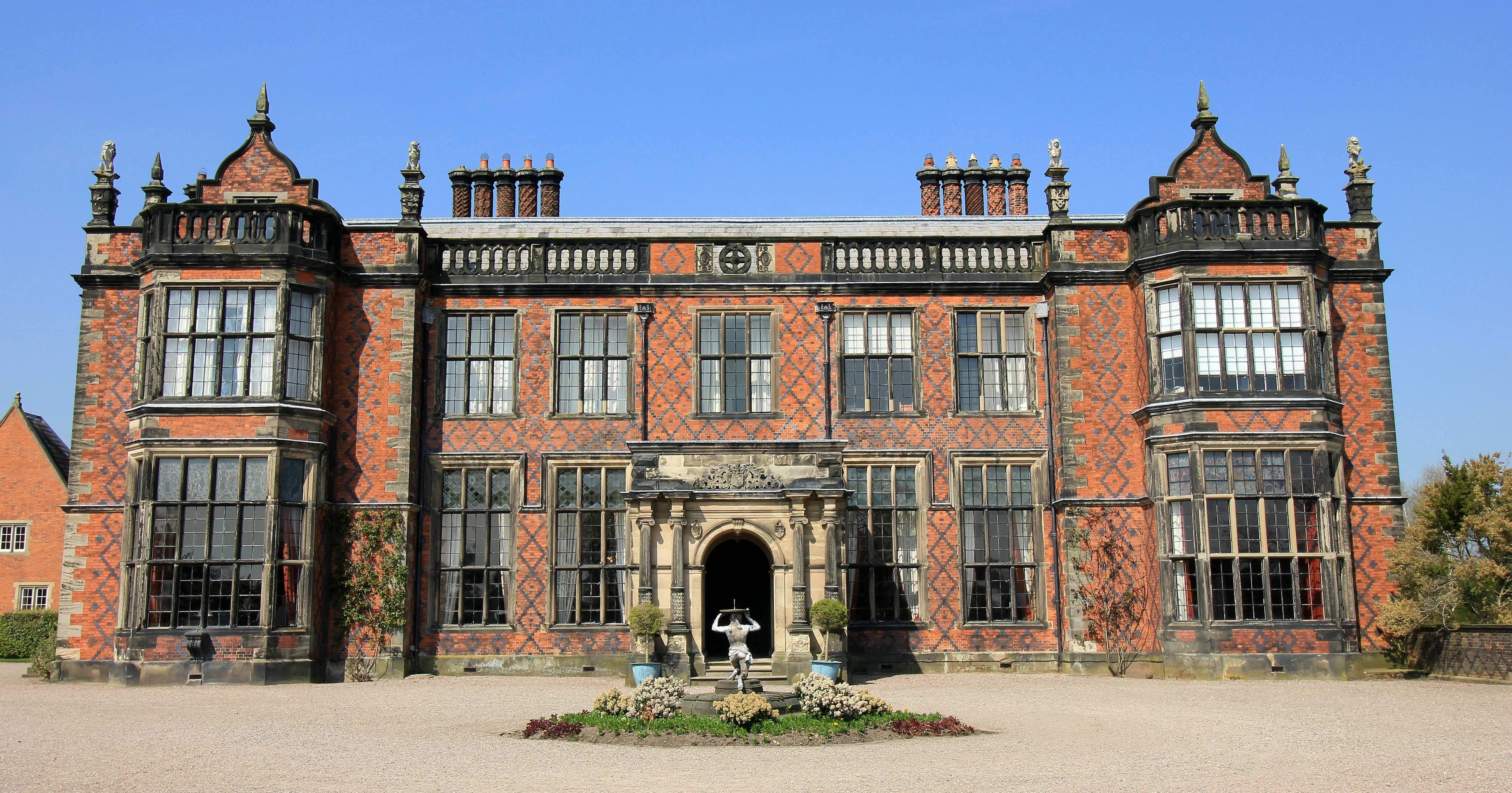 Arley Hall. The present hall was built for Rowland Egerton-Warburton between 1832 and 1845 and replaced an earlier house. The gardens were created in the 1830s, and were developed during the 20th century.